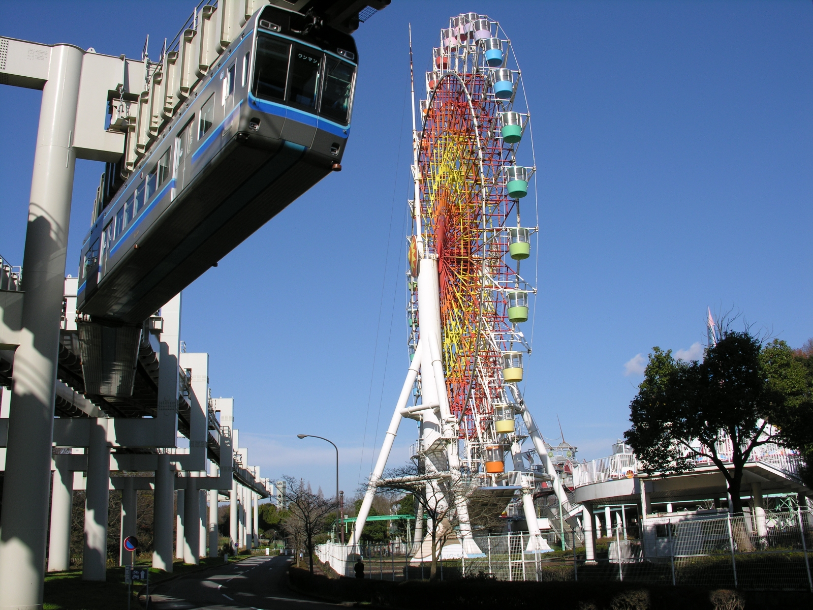 Chiba Urban Monorail, the train approaching to Dobutsu-Koen station